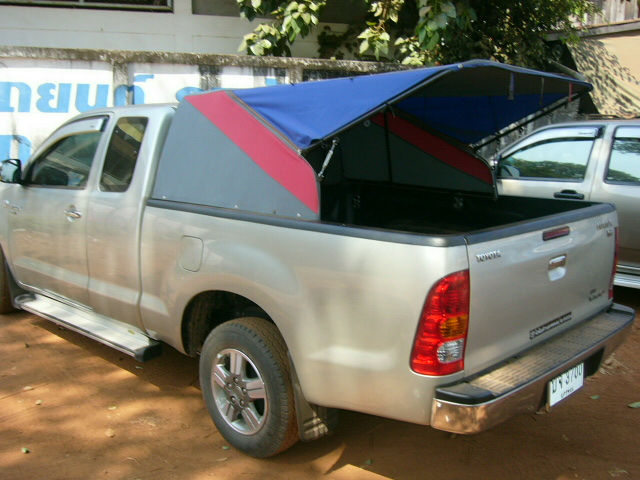 Pick Up Cover (partial) on Toyota Hilux (seventh generation), seen in Thailand.